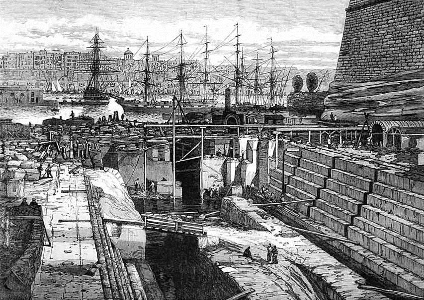 Wood engraving entitled The New Dock at Malta